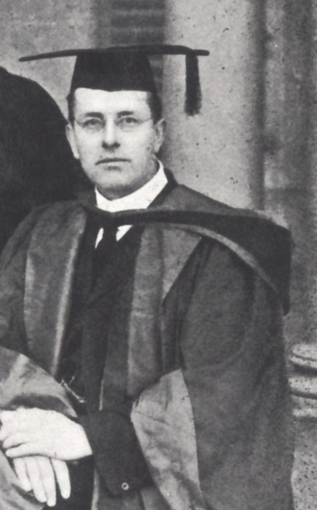 UQFL466 AL P 54 - Professor Bertram Dillon Steele (chemistry), 3 April 1911, University of Queensland (then at Old Government House)